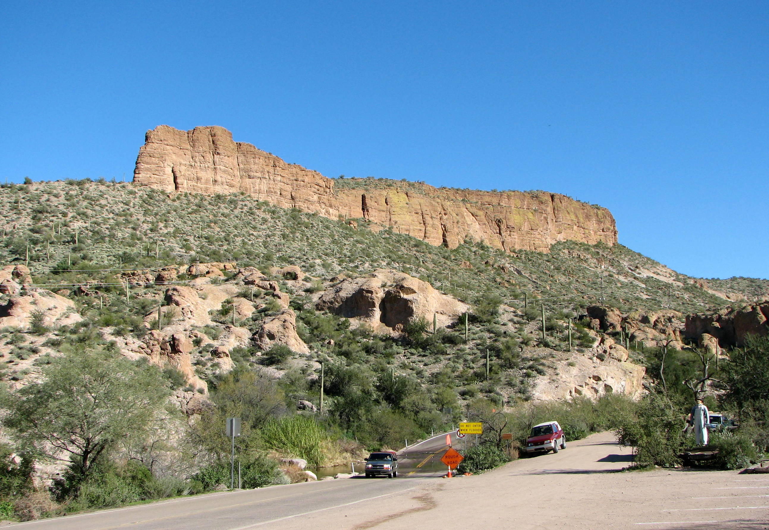 View from the Apache Trail (State Route 88) in Tortilla Flat, Maricopa County, Arizona.